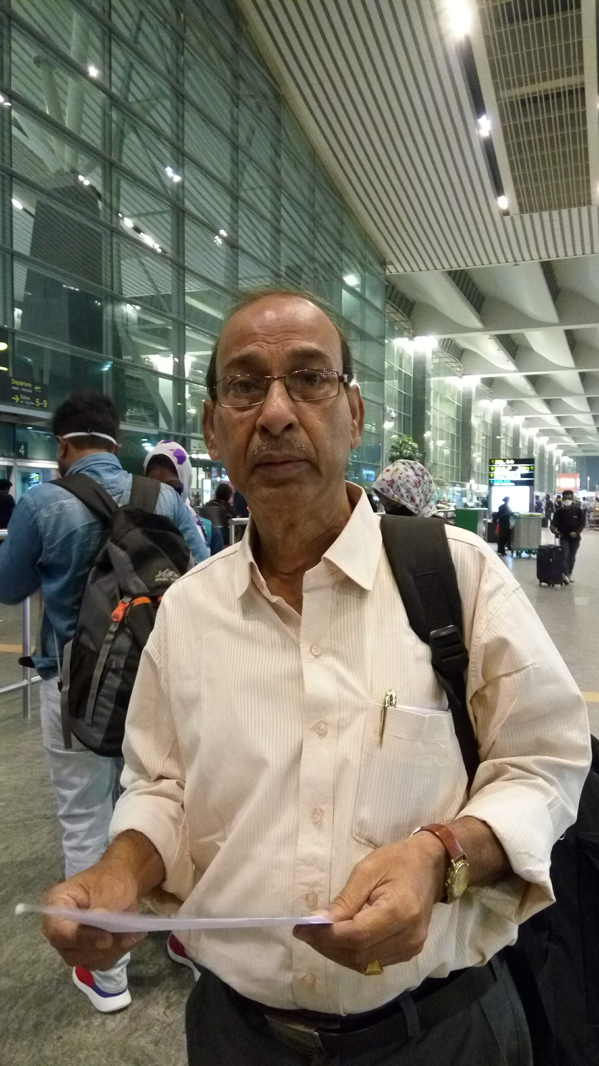 The person in the photo is Arup Chandra, waiting at an airport.